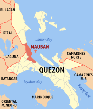 Map of Quezon showing the location of Mauban